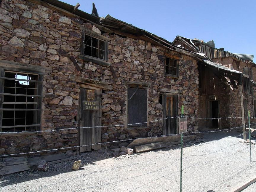 In 1863, after Henry Wickenburg discovered the Vulture Mine, Vulture City a small mining town was established in the area. The town once had a population of 5,000 citizens After the mine closed the city was deserted and became a “ghost town”. The mine and the ghost town are now a tourist attraction in Wickenberg, Arizona. This image is of the Vulture_Mine-Assay office, built in 1884, in Vulture City.